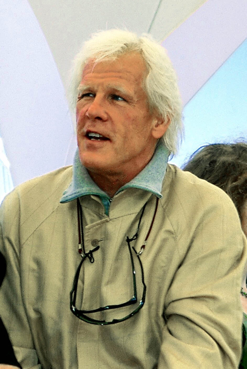 Nolte Nick in Cannes in 2000. My own picture. Created by Rita Molnár 2000.